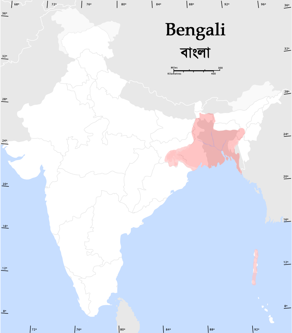 This file shows the region (highlighted in red) where Bengali is chiefly spoken. Dark red = Bangladesh